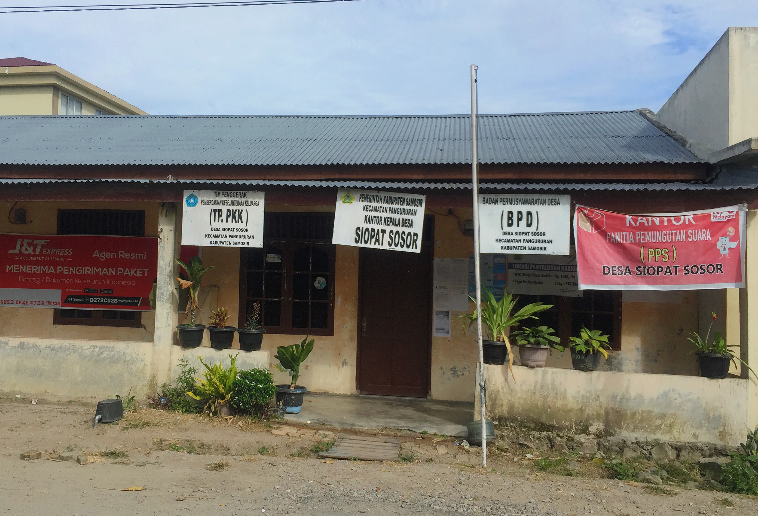 Office of Siopat Sosor, Pangururan, Samosir